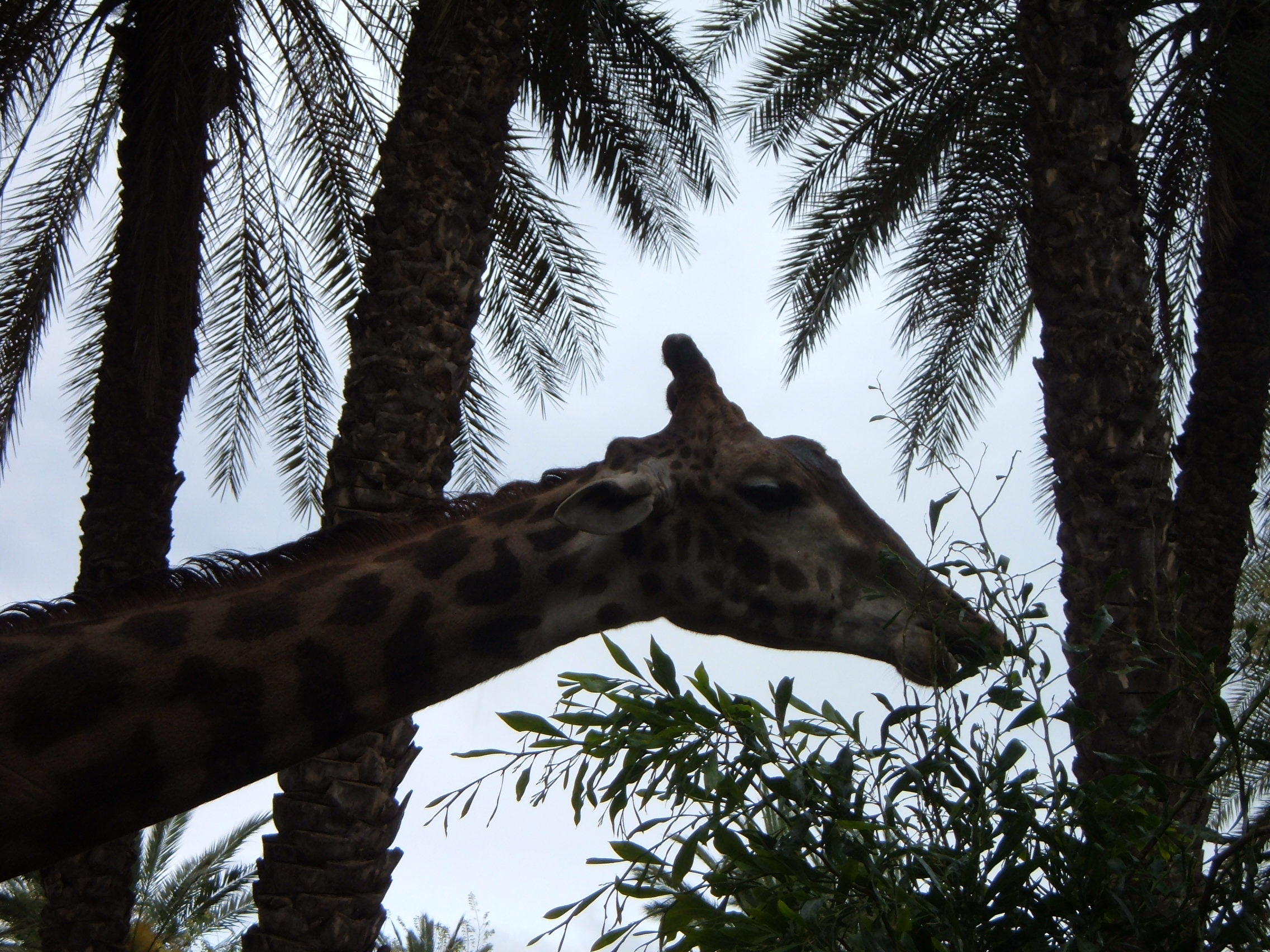 Wildlife and Plants of Israel